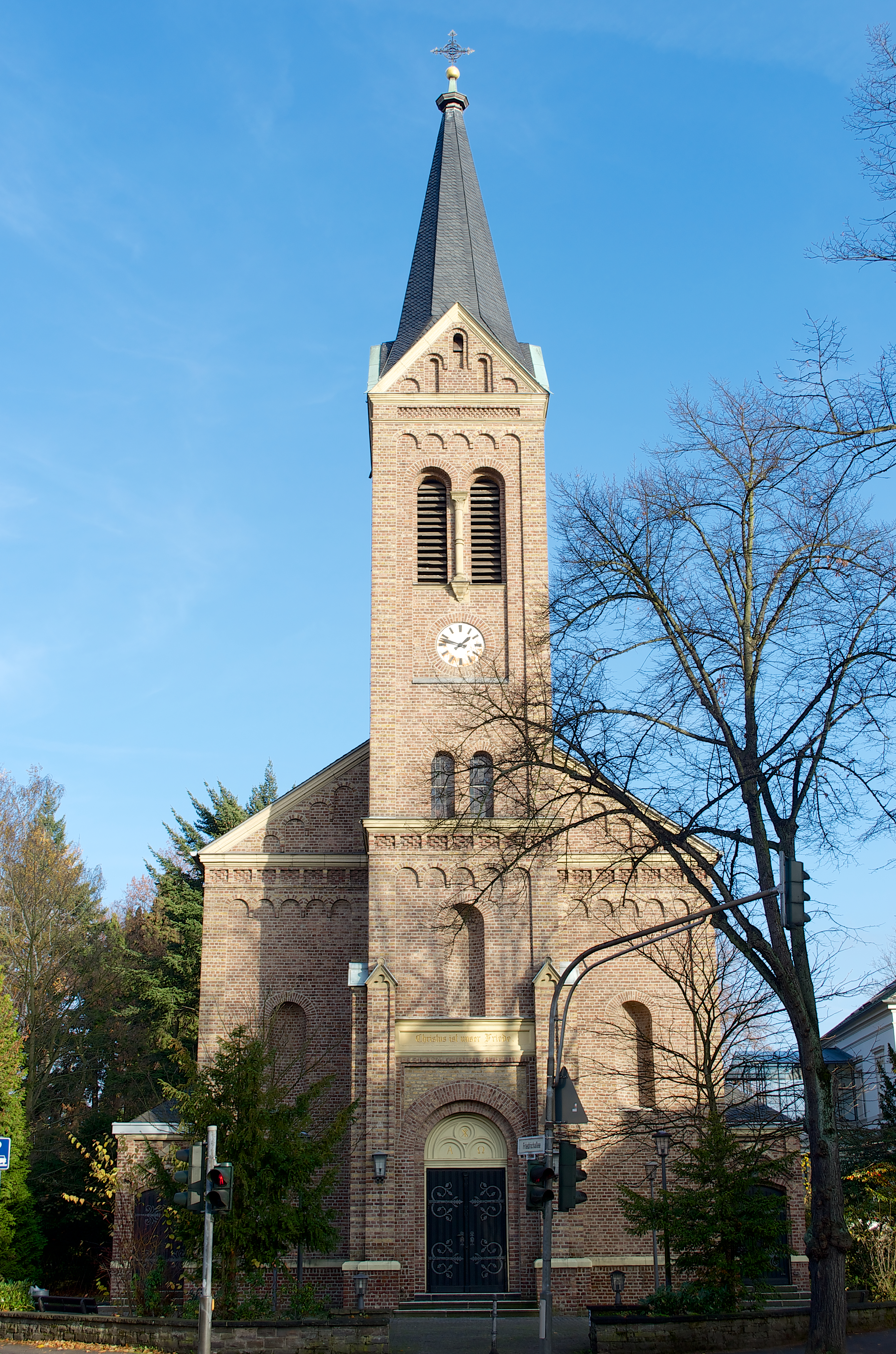 Redeemer church (Erlöserkirche) in Bad Godesberg, Rüngsdorfer Straße 43